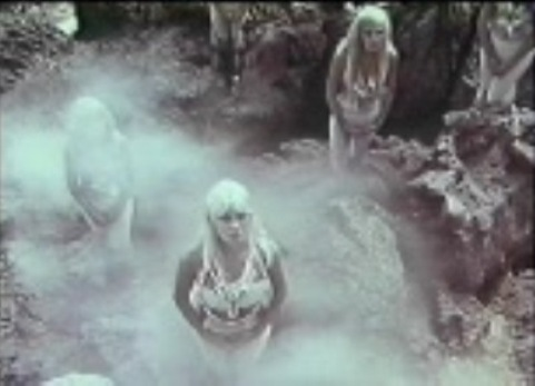 Still from Voyage to the Planet of Prehistoric Women (1968), an American film that used footage from the 1962 Russian film Planeta Bur and added footage of women on the planet.